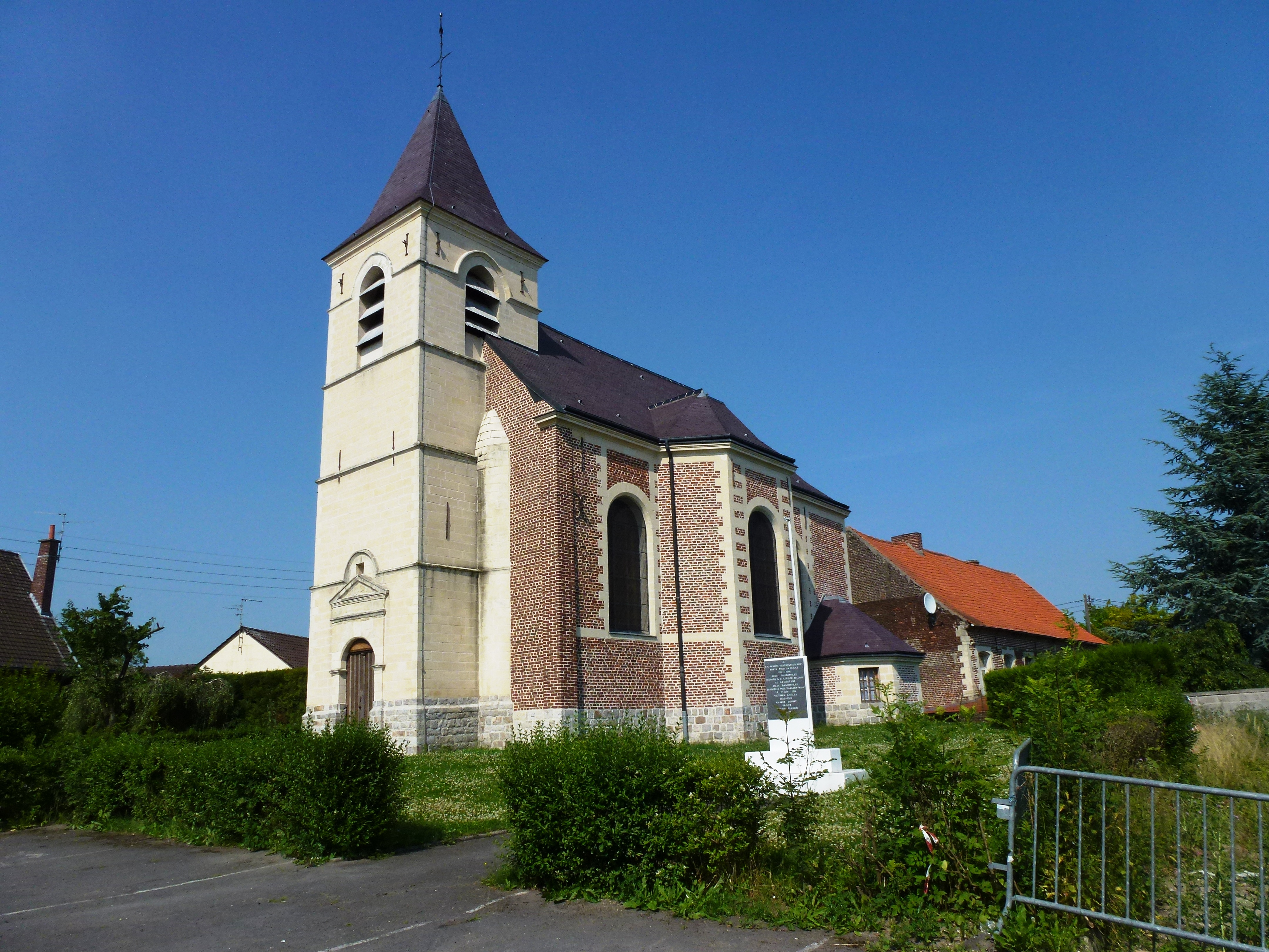 Oisy (Nord, Fr) église